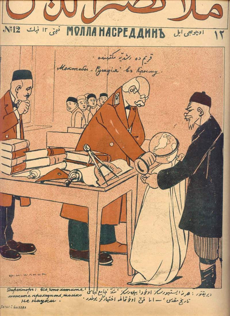 At the Rushdiyya School in Crimea. Molla Nasreddin № 12. Director confiscating the equipment: You can teach whatever you want e.g. The Holy History, but you have no right to teach science.